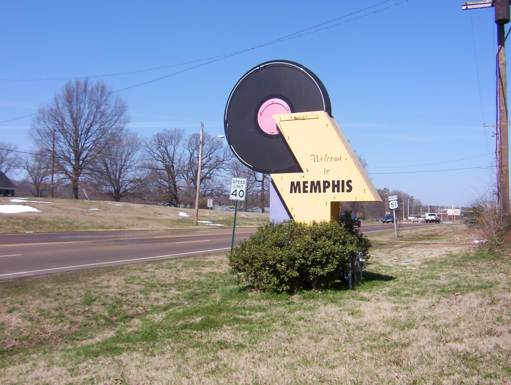 "Welcome to Memphis" sign on US 51 in Memphis, TN north of the Tennessee/Mississippi stateline. (March 2008)